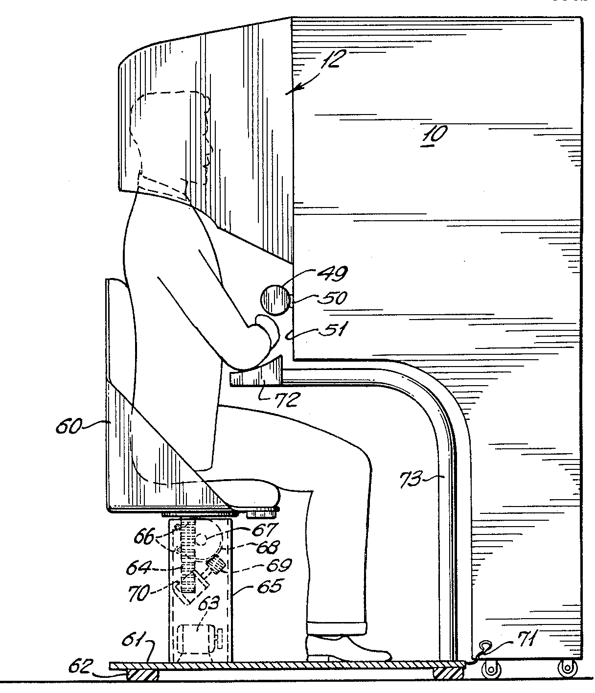 Illustration of Morton Heilig's Sensorama device, precursor to later virtual reality systems.